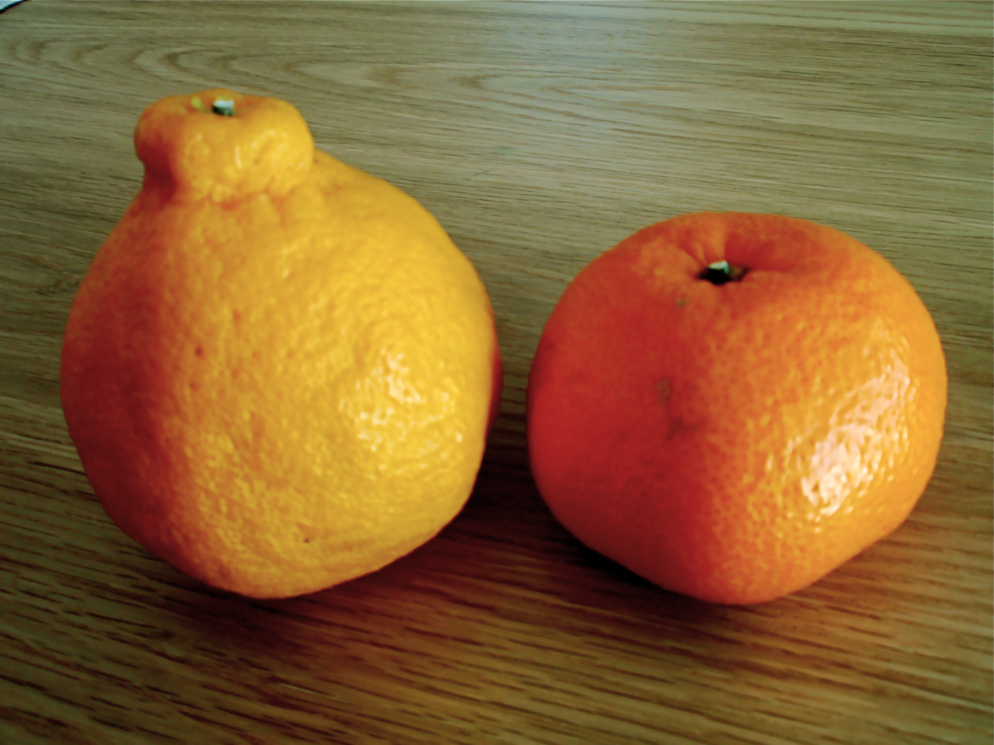 dekopon and mikan